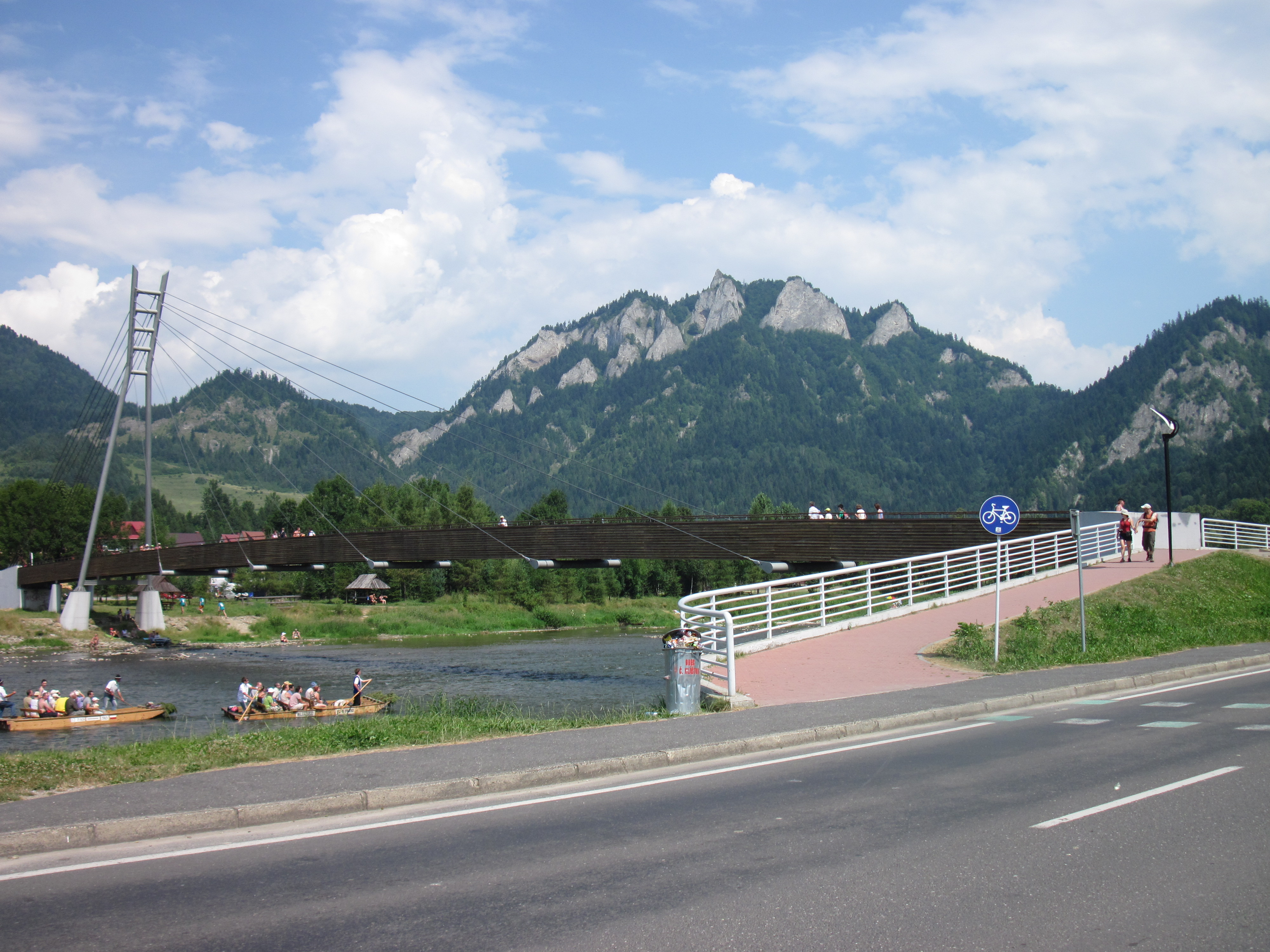 "Three Crowns", a hill in Poland part of Pieniny mountains.